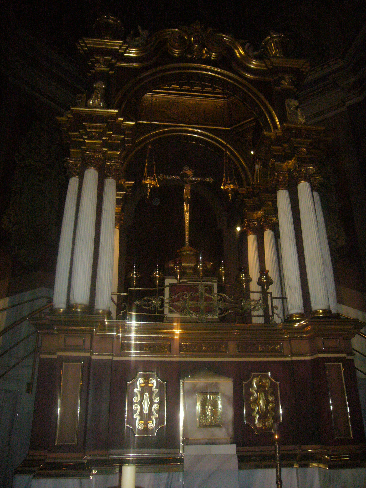 Chapel of Sant Crist d'Igualada